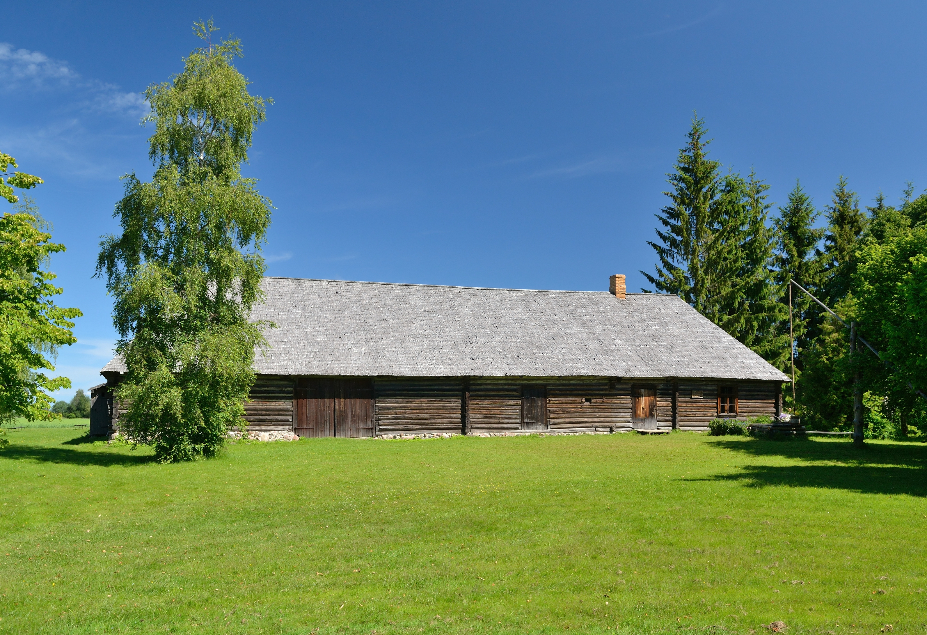 Oja farm, where lived Juhan and Jakob Liiv